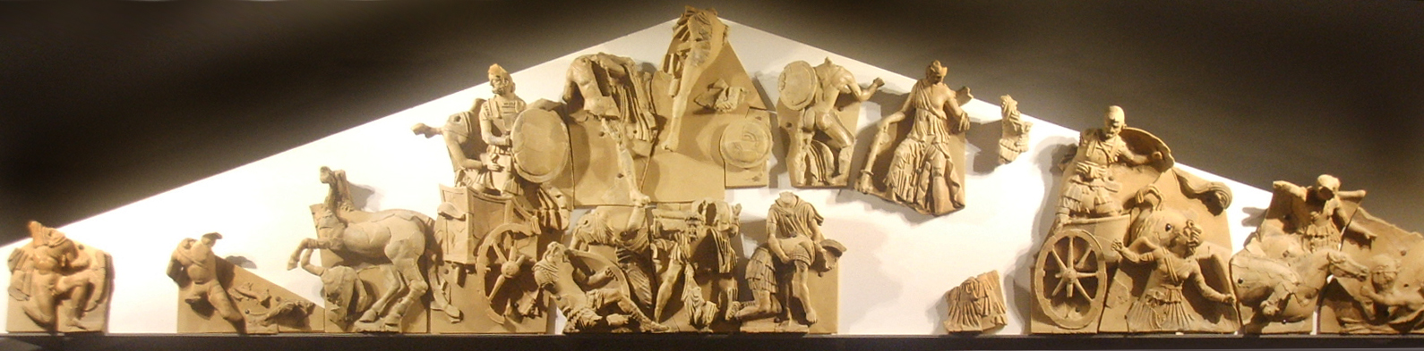 Terracotta pediment from the temple of Talamone (Grosseto), the first closed pediment in Etruria, showing the fate of the Seven against Thebes.